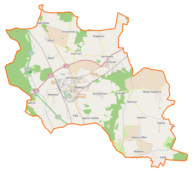 Map of Gmina Rawicz, Poland This map of Rawicz (gmina) was created from OpenStreetMap project data, collected by the community. This map may be incomplete, and may contain errors. Don't rely solely on it for navigation. Border coordinates51.683216.7600←↕→17.017551.5401